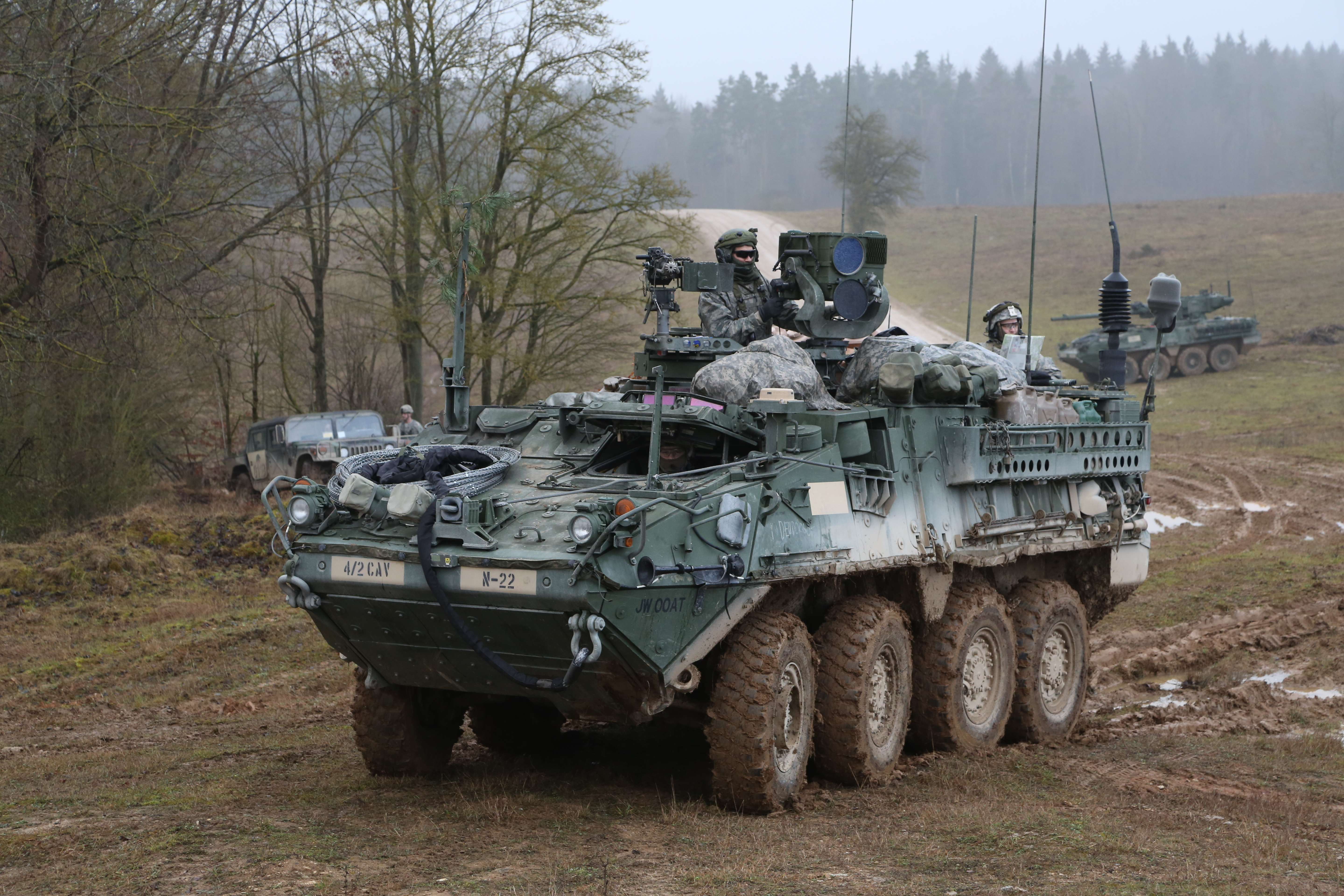 U.S. Soldiers of Nemesis Troop, 4th Squadron, 2nd Cavalry Regiment observe the surrounding area while conducting screening operations during exercise Allied Spirit at the Joint Multinational Readiness Center in Hohenfels, Germany, Jan. 18, 2015. Exercise Allied Spirit includes more than 2,000 participants from Canada, Hungary, Netherlands, United Kingdom, and the U.S. Allied Spirit is exercising tactical interoperability and testing secure communications within alliance members. (U.S. Army photo by Sgt. Ian Schell/Released)